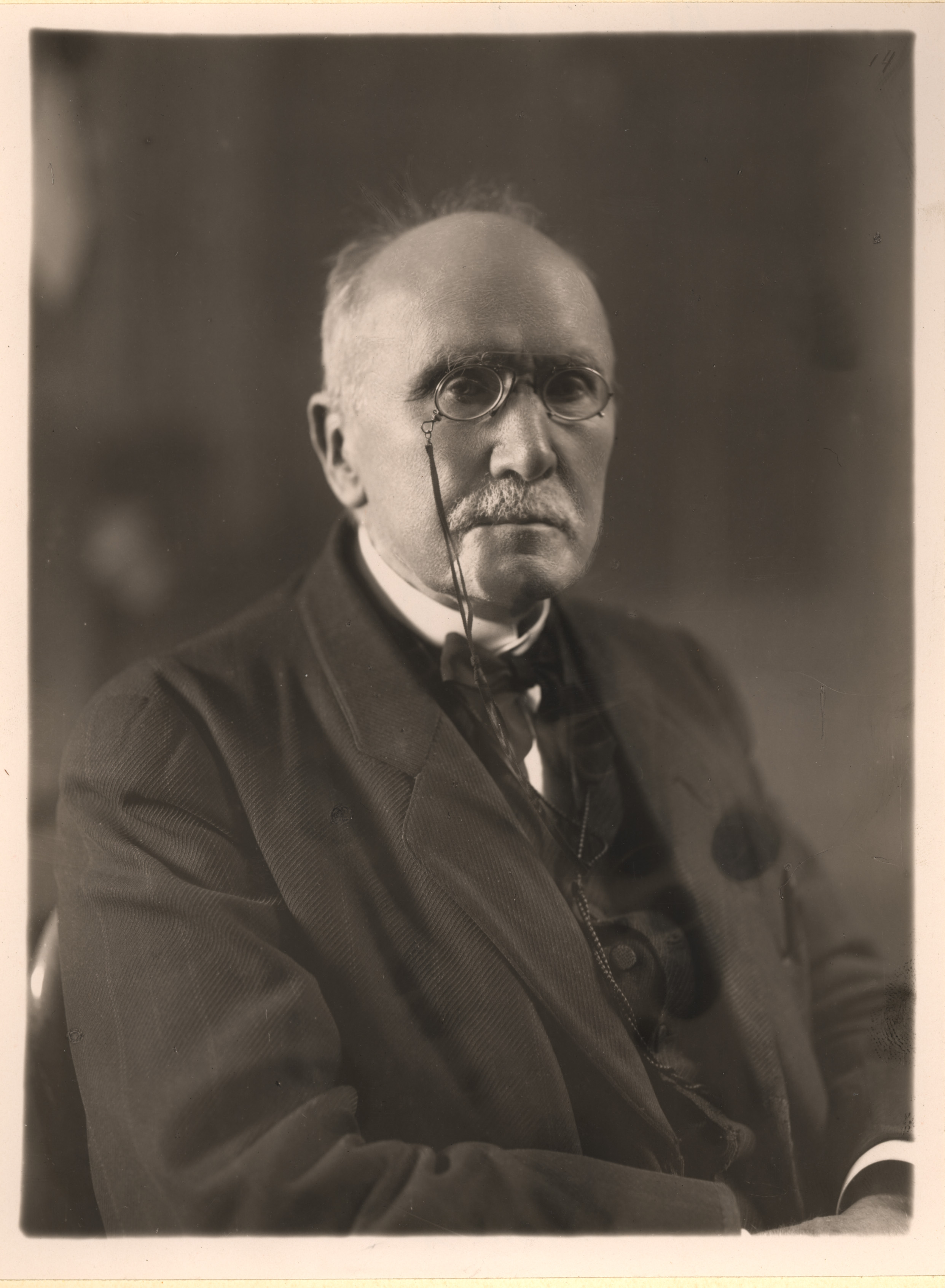 Creator/Photographer: Unidentified photographer Medium: Medium unknown Dimensions: 21.3 cm x 16 cm Date: prior to 1940 Collection: Scientific Identity: Portraits from the Dibner Library of the History of Science and Technology - As a supplement to the Dibner Library for the History of Science and Technology's collection of written works by scientists, engineers, natural philosophers, and inventors, the library also has a collection of thousands of portraits of these individuals. The portraits come in a variety of formats: drawings, woodcuts, engravings, paintings, and photographs, all collected by donor Bern Dibner. Presented here are a few photos from the collection, from the late 19th and early 20th century. Repository: Smithsonian Institution Libraries Accession number: SIL14-B7-11